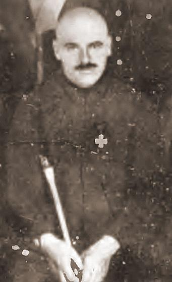 Iwan Omelianowicz-Pawlenko (1881-1962), Ukrainian military, General of Ukrainian People's Republic Army